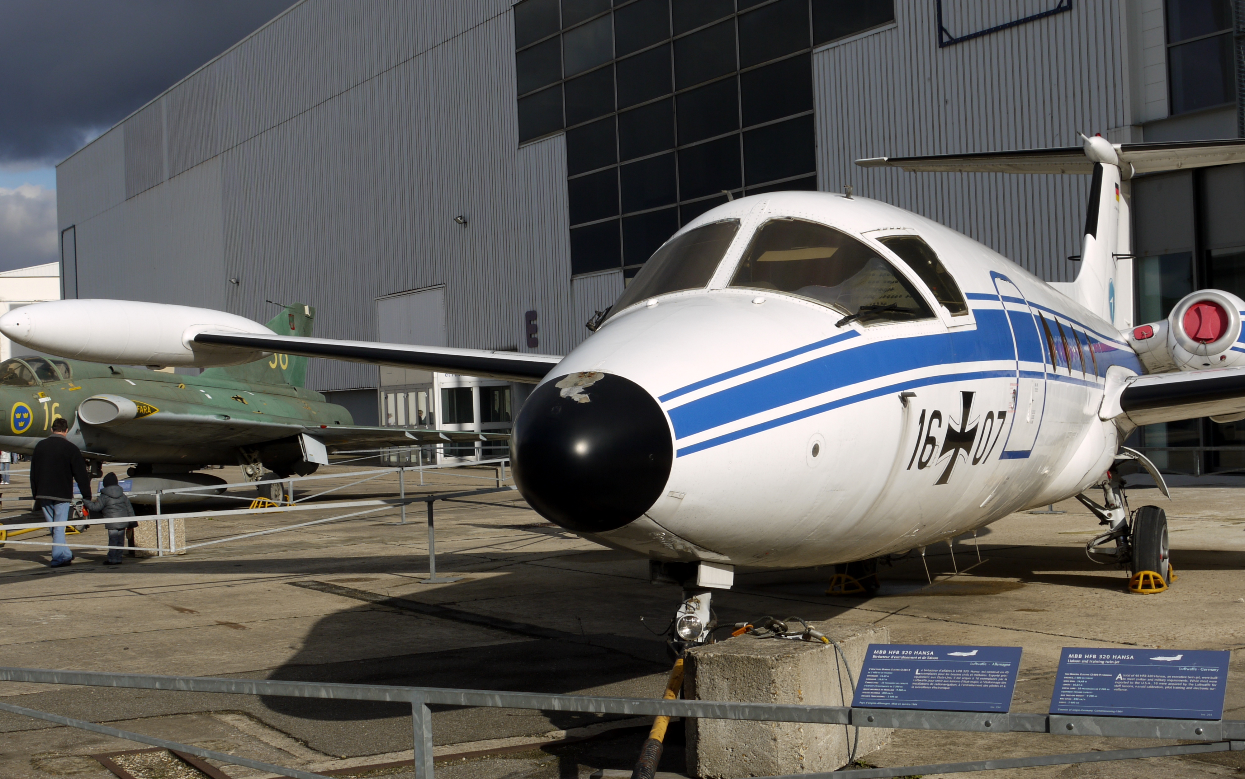 Twin-engine business jet HFB 320 Hansajet (1964), Museum of Air and Space Paris, Le Bourget (France)